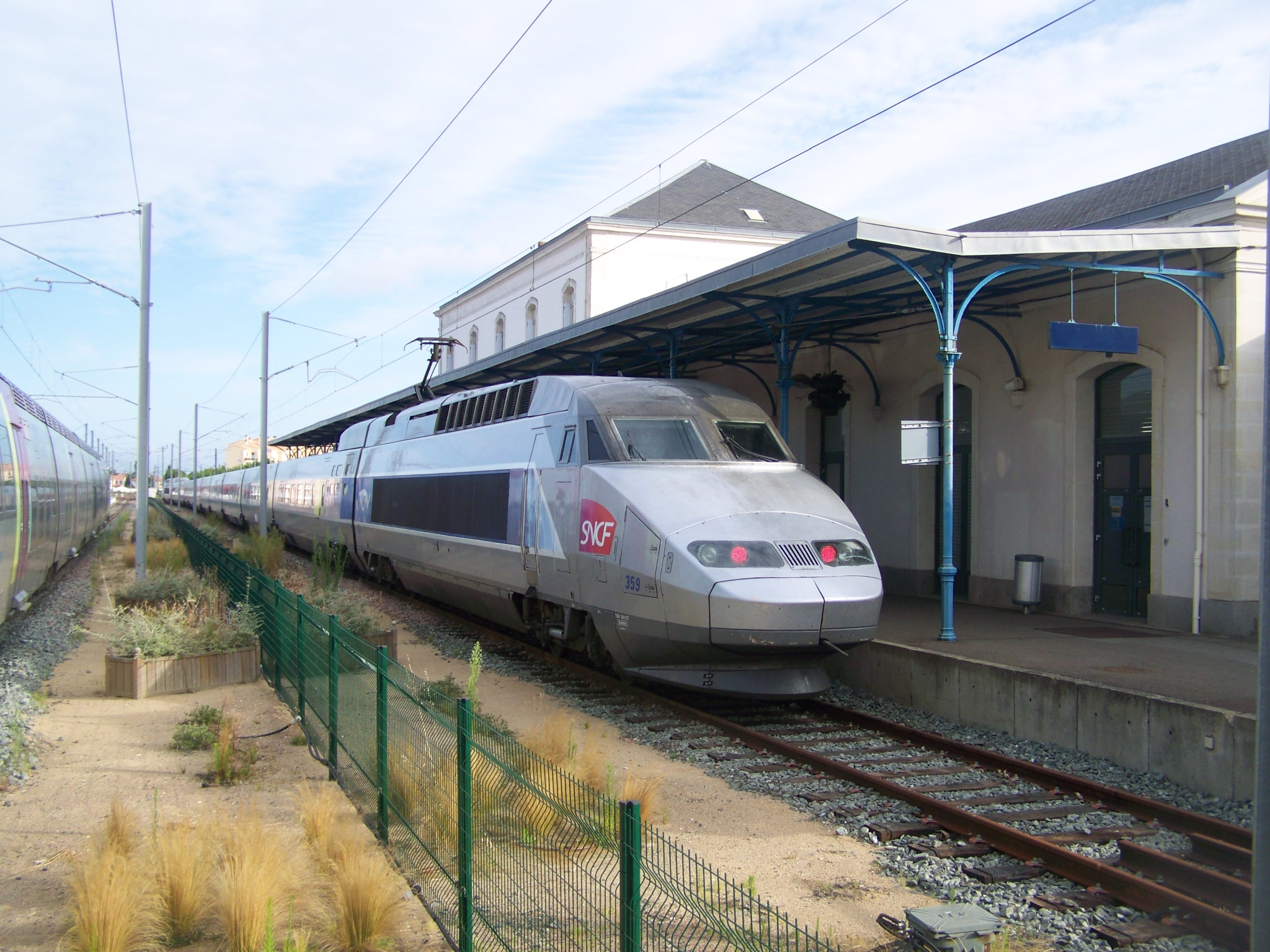 French TGV bound for Paris is expecting its next departure from les Sables d'Olonne railway station, in Vendée.